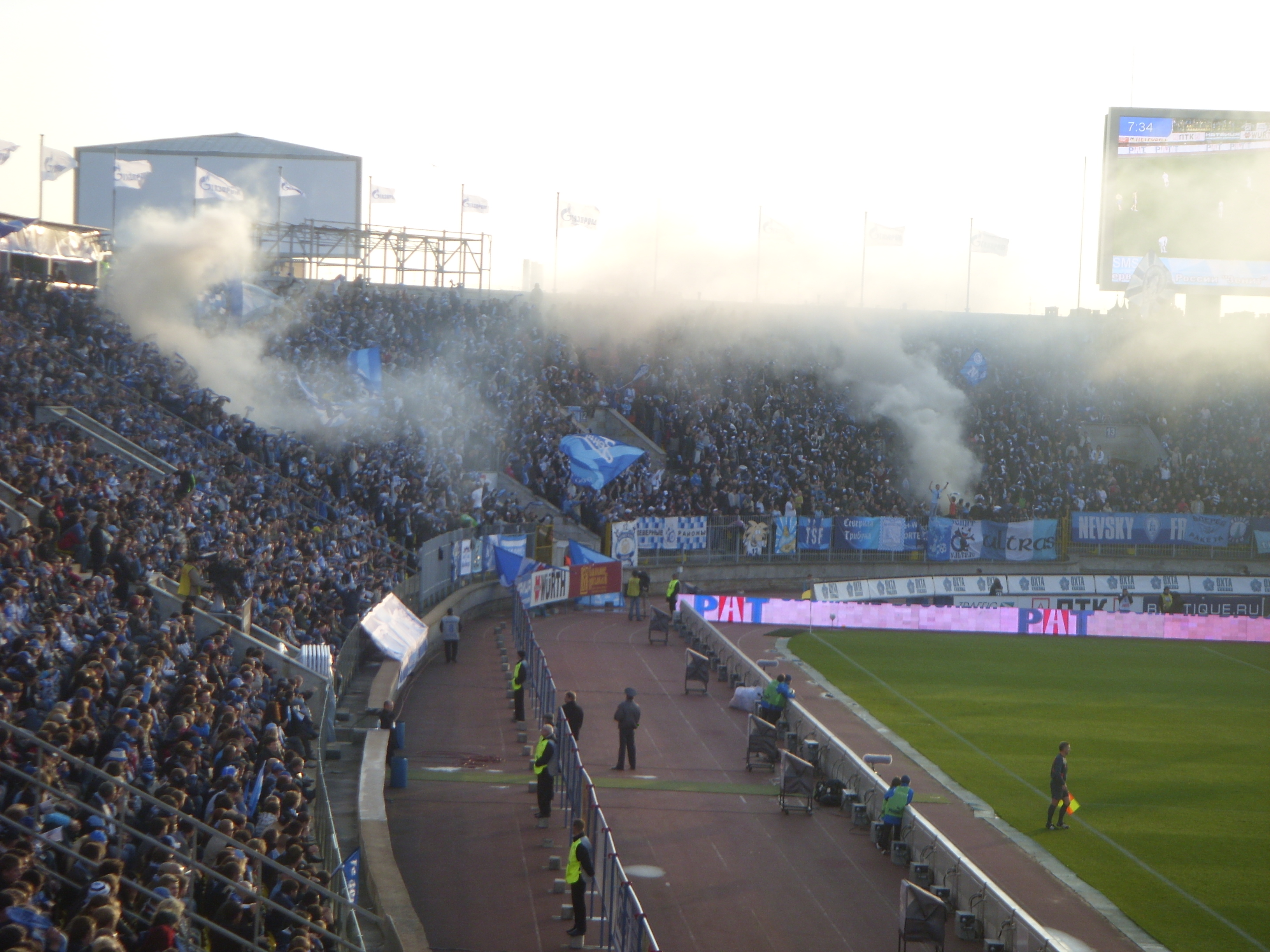 Russian Football Premier League. FC Zenit SPb. — FC Luch-Energiya Vladivostok (8—1). Petrovsky Stadium, Sankt-Peterburg, Russia.